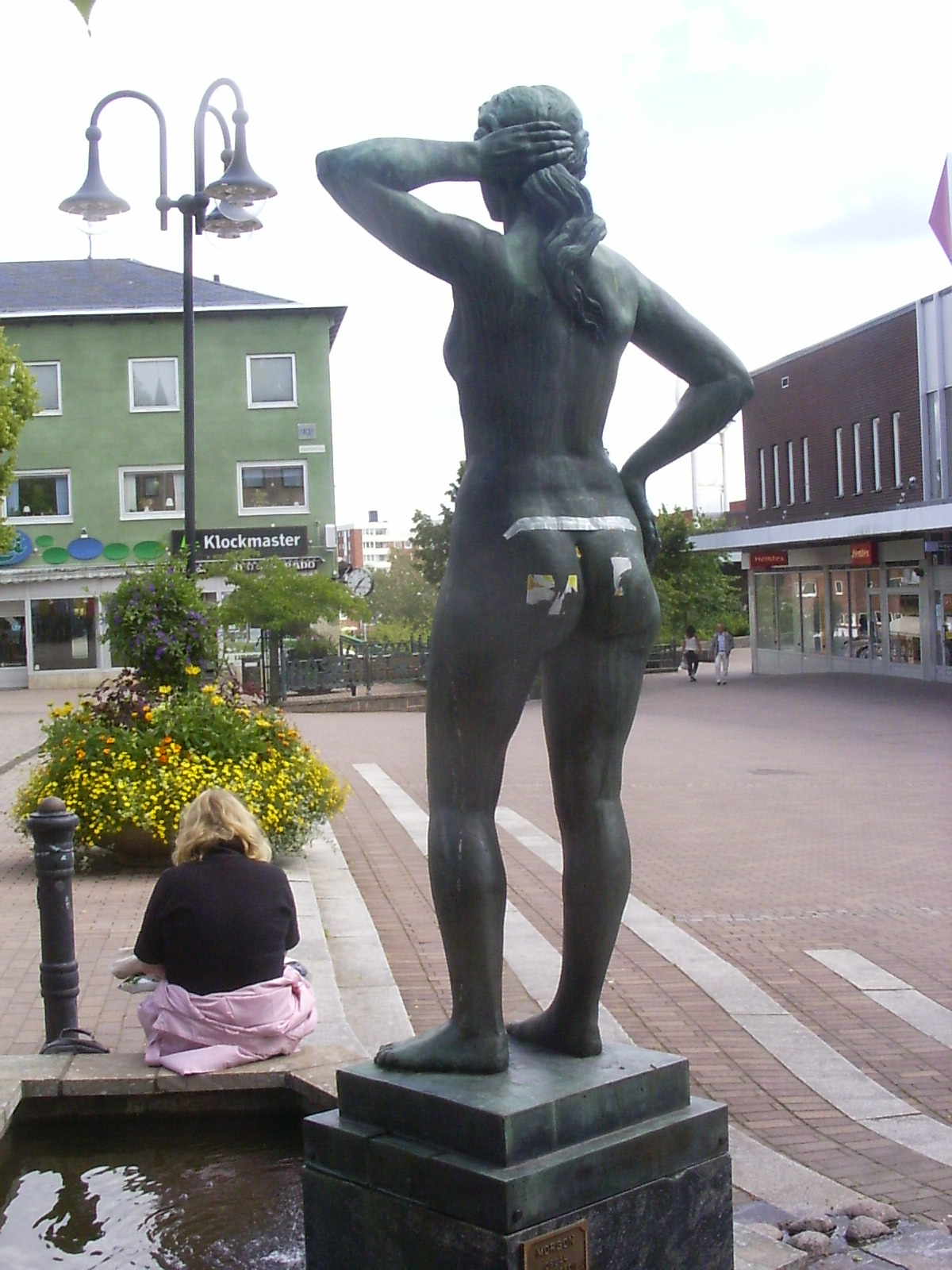 Statue in central Karlskoga, Sweden, back view